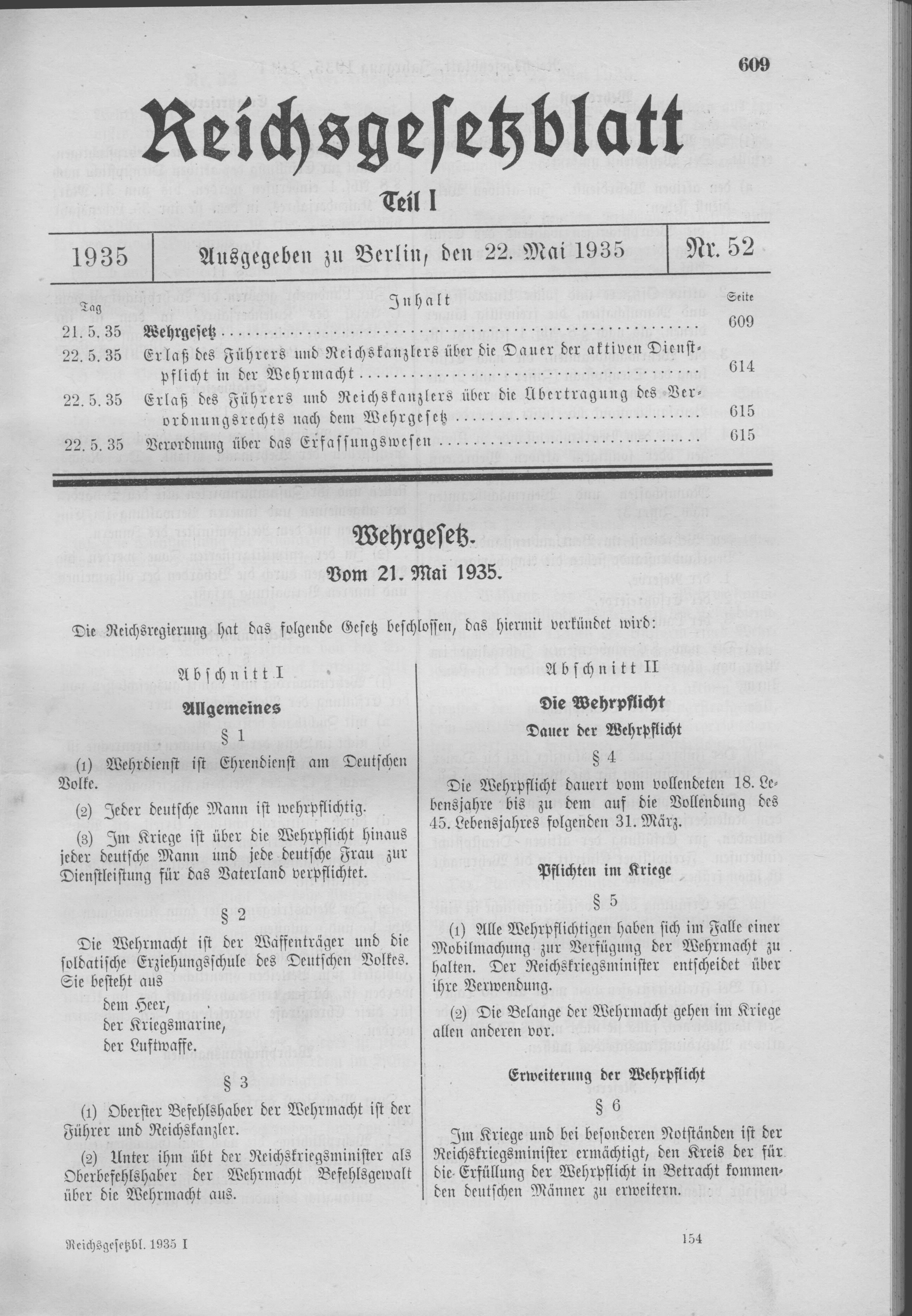 Scan from the Imperial Law Gazette of Germany, 1935, part 1